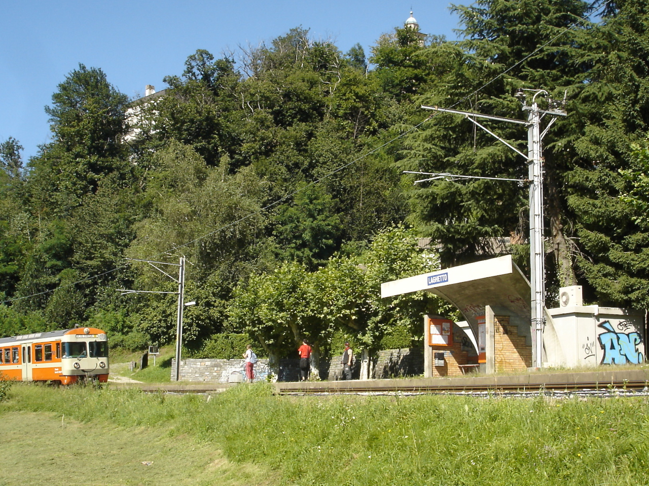 Sorengo Laghetto train station.